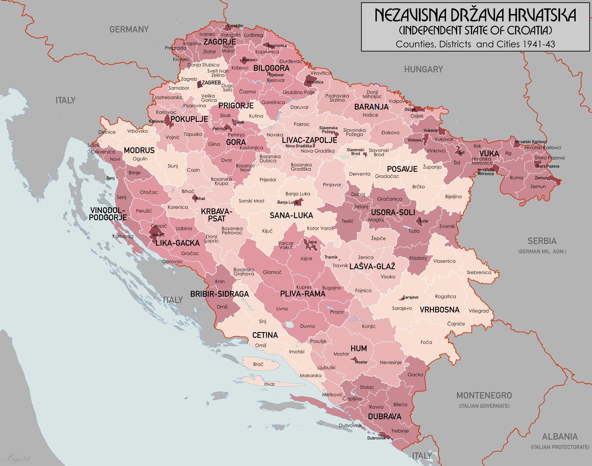 Map of the Counties and Districts of the Independent State of Croatia in 1941